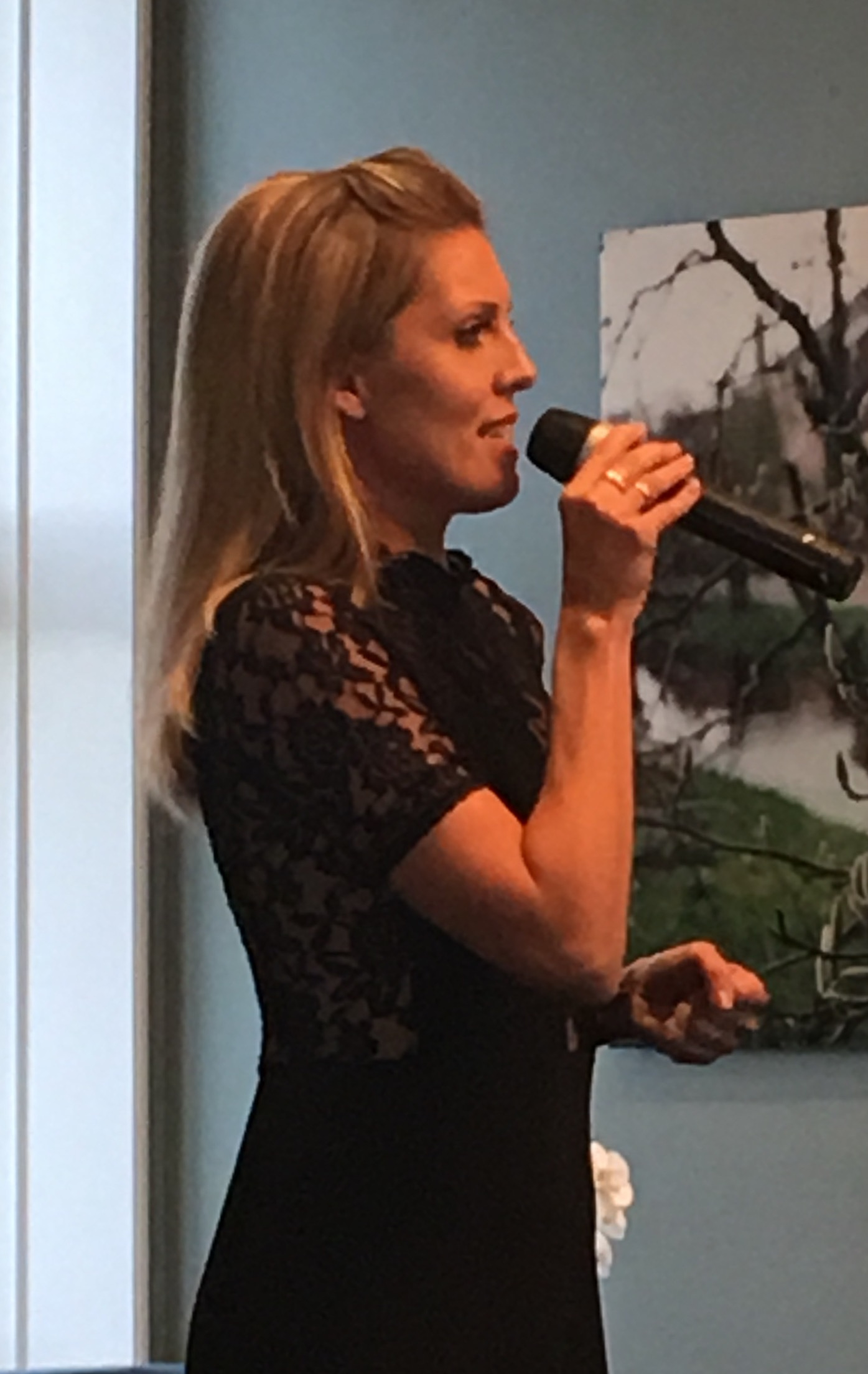 Julie Dahle Aagard, jazz singer from Norway